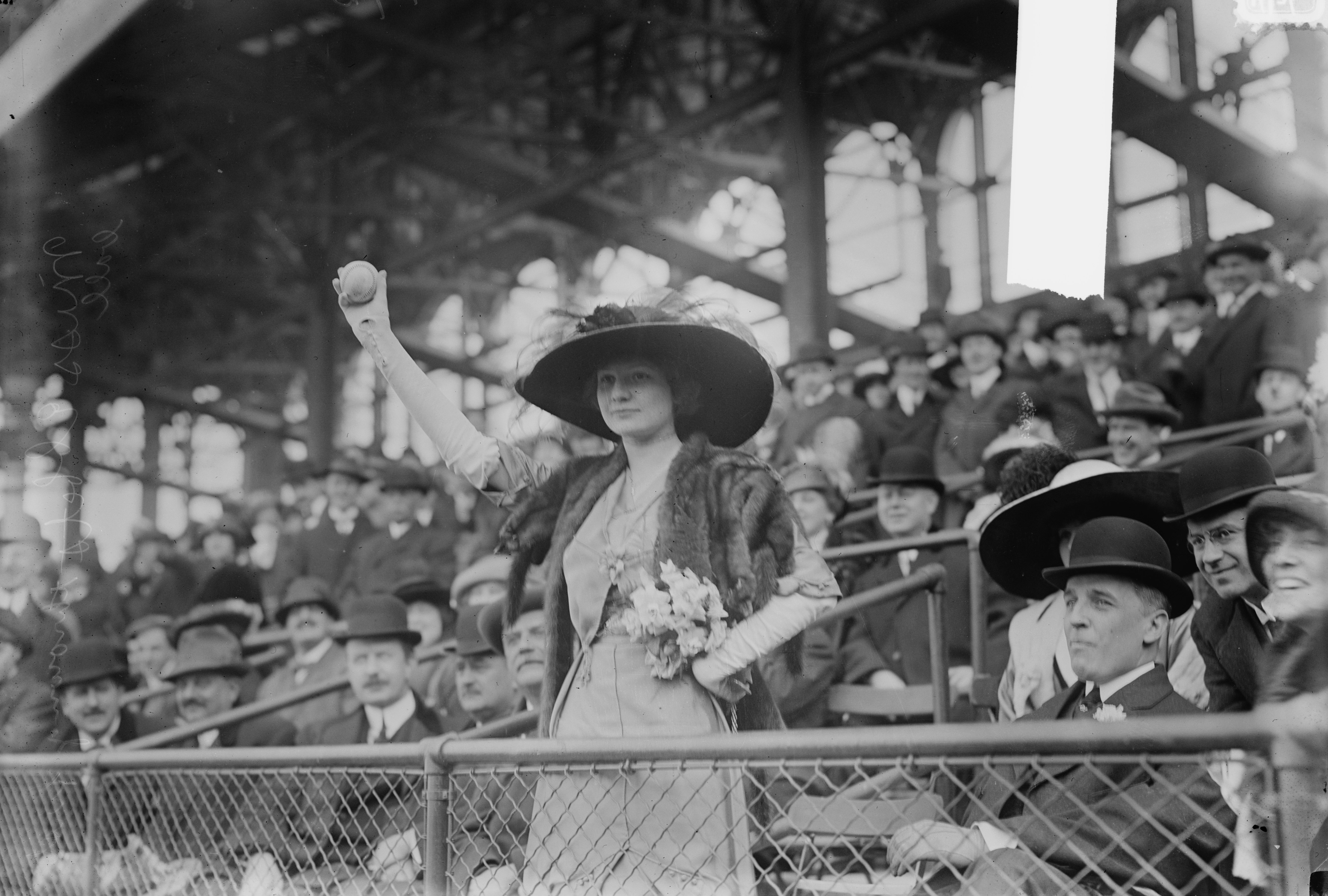 Title: Miss Genevieve Ebbets, youngest daughter of Charley Ebbets, throws first ball at opening of Ebbets Field (baseball) Abstract/medium: 1 negative : glass ; 5 x 7 in. or smaller.